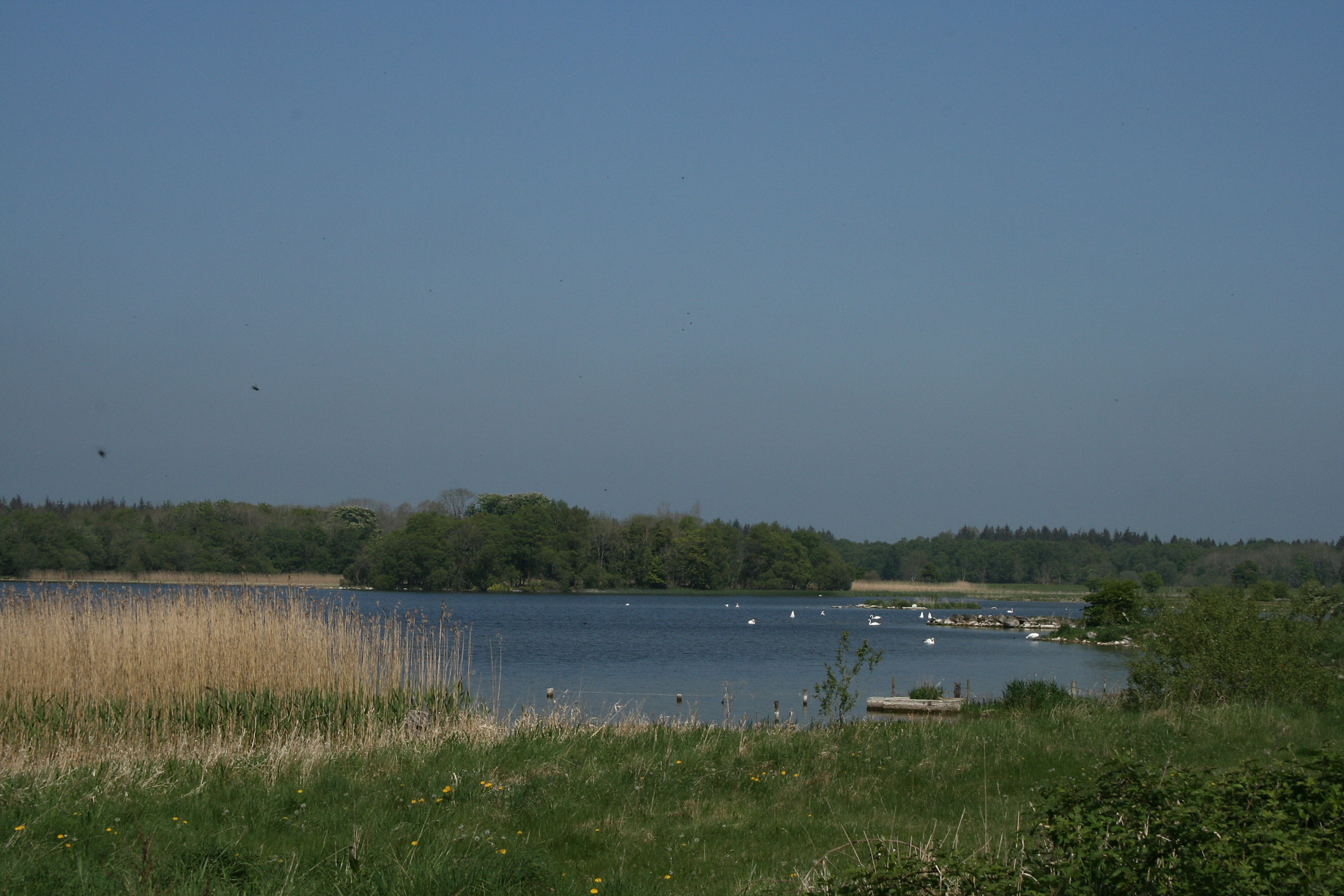 Lough Ennell, looking northwest from The Bloomfield